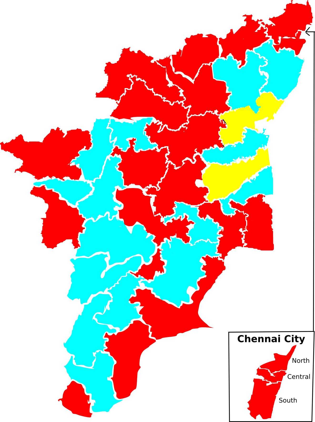 Election map based on parties contesting under the UPA alliance in 2009. Lok Sabha Election map for Tamil Nadu. Map is based on ECI drawn map. Results are based on ECI website.